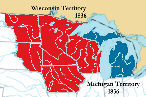 Map of Michigan Territory in 1836 following the detachment of Wisconsin Territory Based on a public domain U.S. government map.